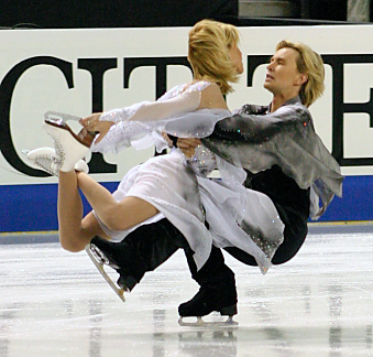 Melissa Gregory and Denis Petukhov compete their free dance at the 2004 Four Continents Championships in Hamilton, Ontario. Photo by me, Vesperholly 07:21, 17 July 2006 (UTC)